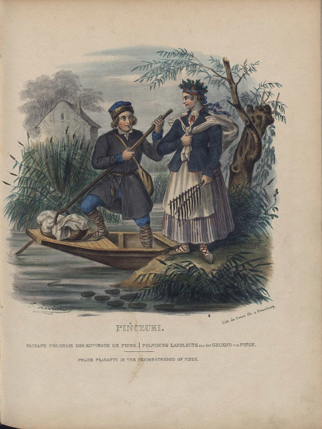 Pinchuky